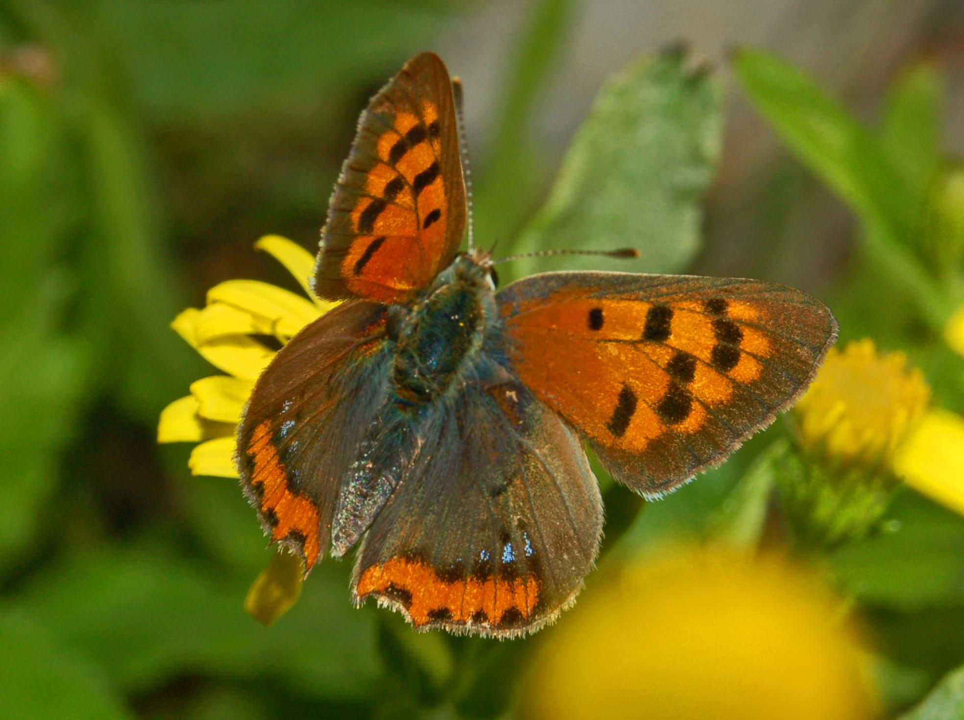 Lycaenidae - Lycaena phlaeas